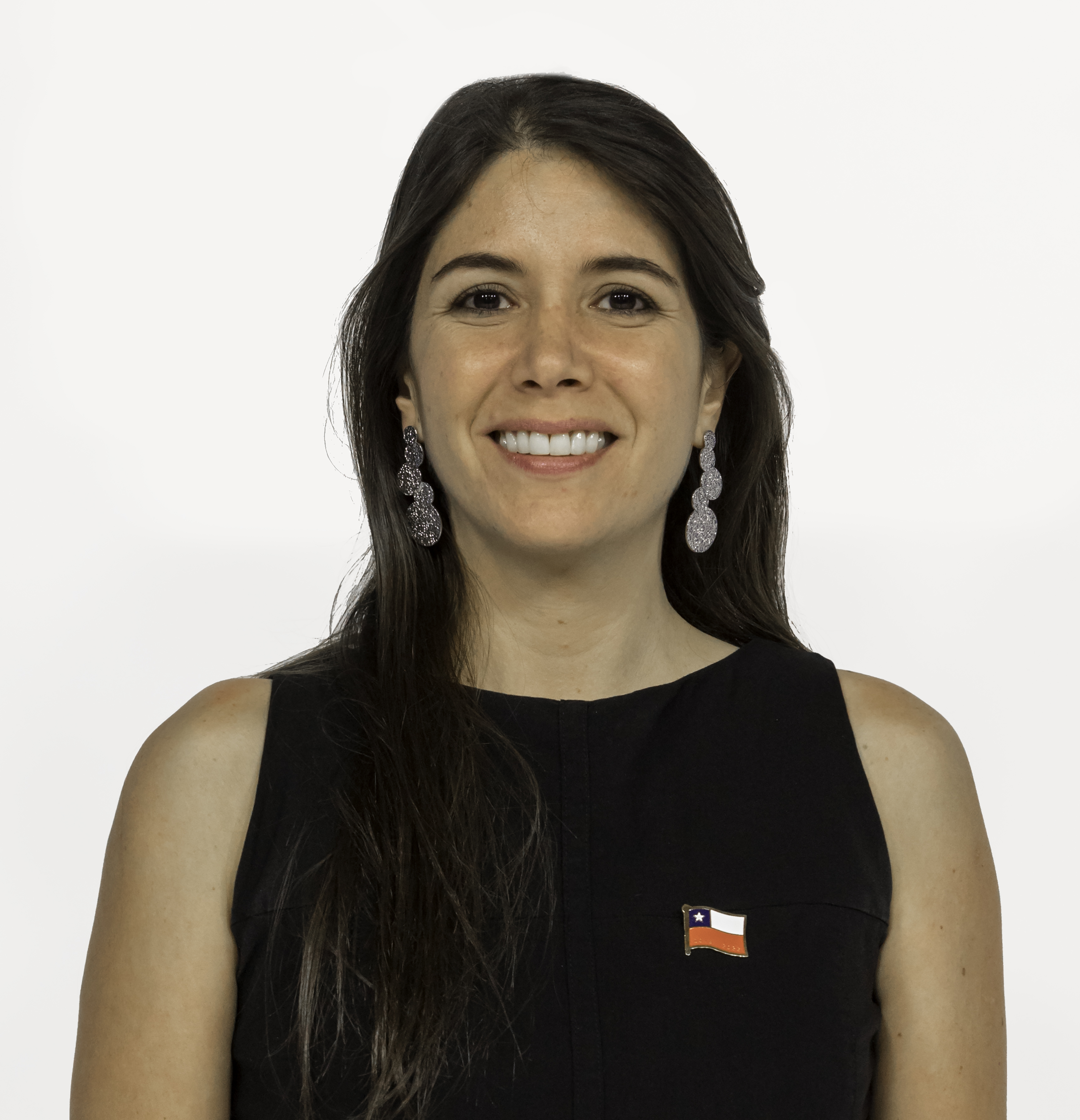 Official photo of Katherine Martorell as Deputy Secretary of Crime Prevention of Chile